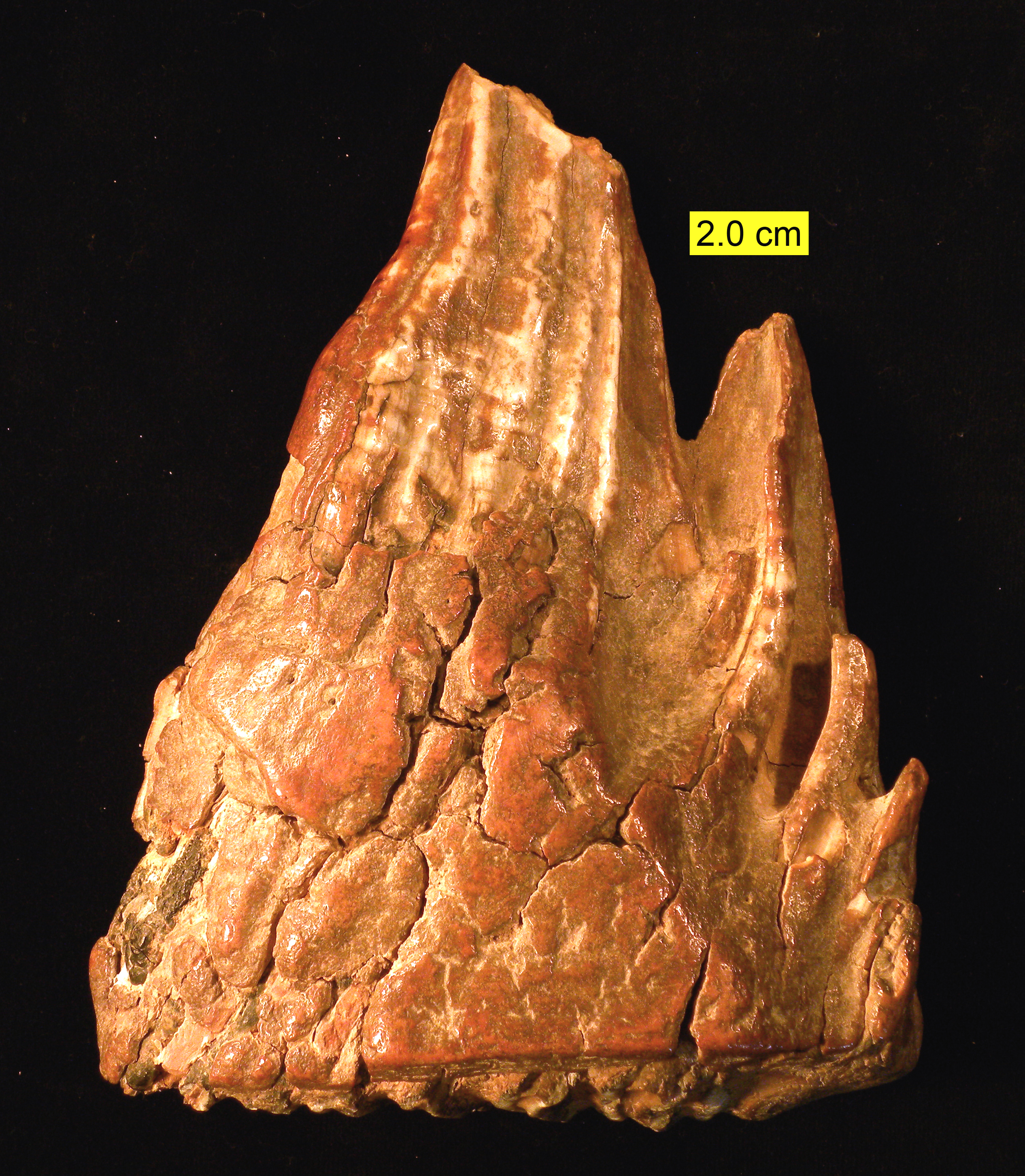 Mammuthus tooth in side view from the Pleistocene of Holmes County, Ohio.